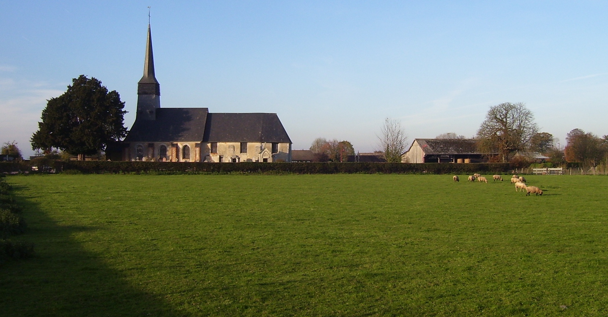 The church Saint-Martin in Bazoques (Eure, France). Southern side from far away, with sheep.